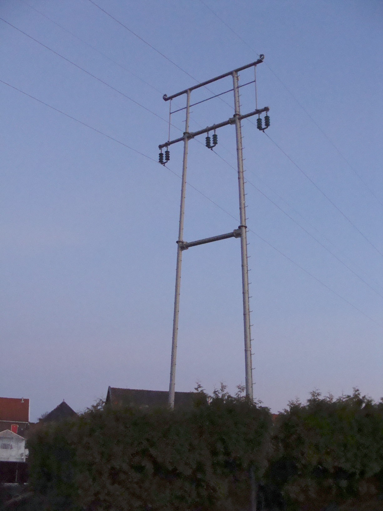 High-voltage transmission tower (electricity pylon) in the 50 kilovolt line between Enkhuizen and Medemblik in the Netherlands. This is tower no. 6. Like the other towers in the line, it was constructed around 1950 from Mannesmann pipes (which were seen as a more suitable replacement for wooden poles and beams).